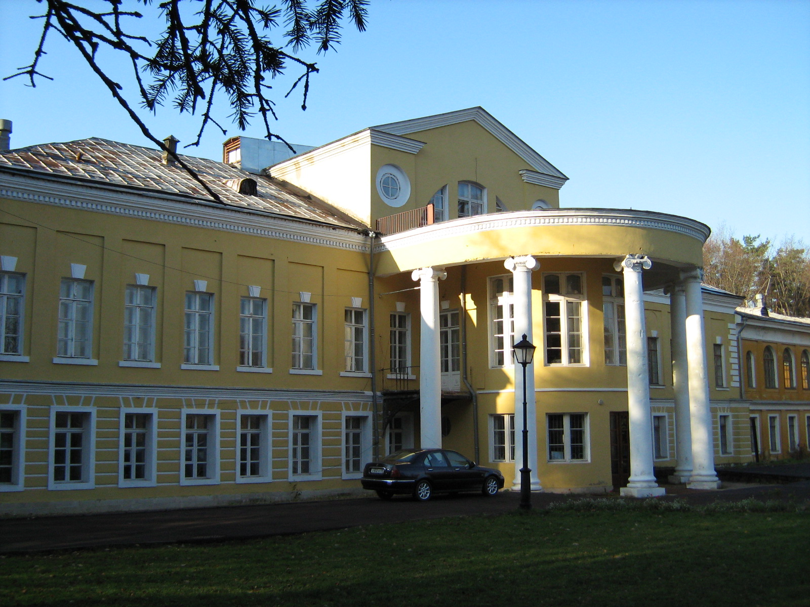 Sukhanovo House near Moscow